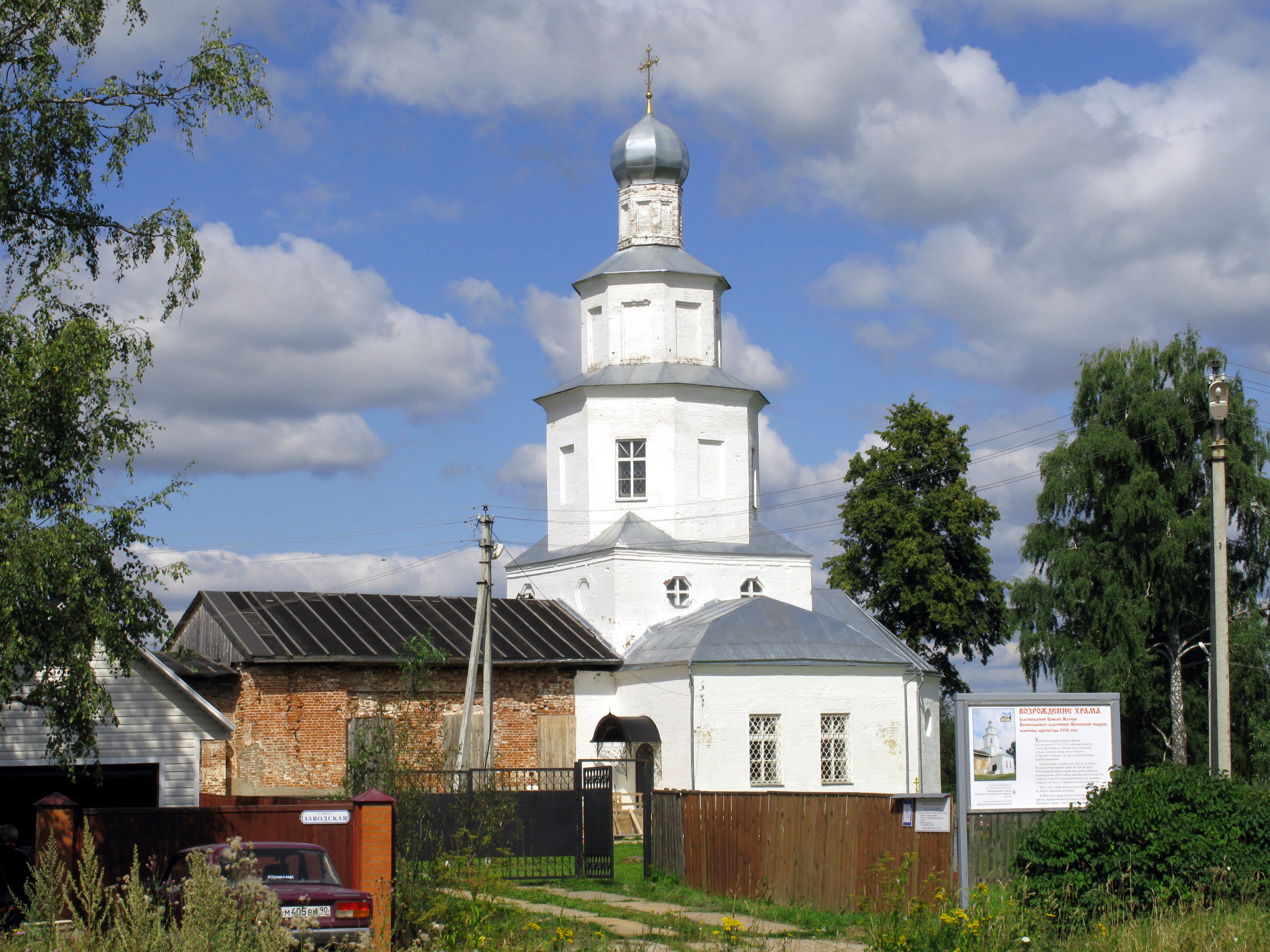 Church of the Annunciation in Brazhnikovo (Volokolamsky District of Moscow Oblast)